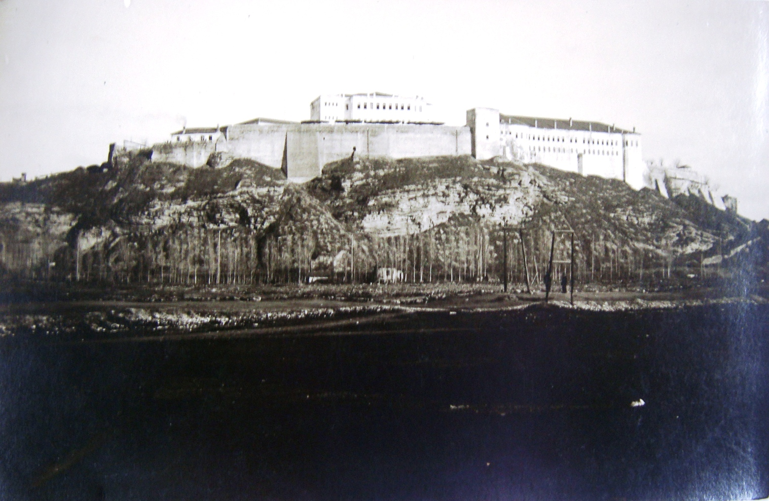 Historical images of Skopje: A view to Kale (Skopje Fortress). This media file is produced by Wikipedian in Residence in Category:Wikipedian in Residence at DARM in 2016.